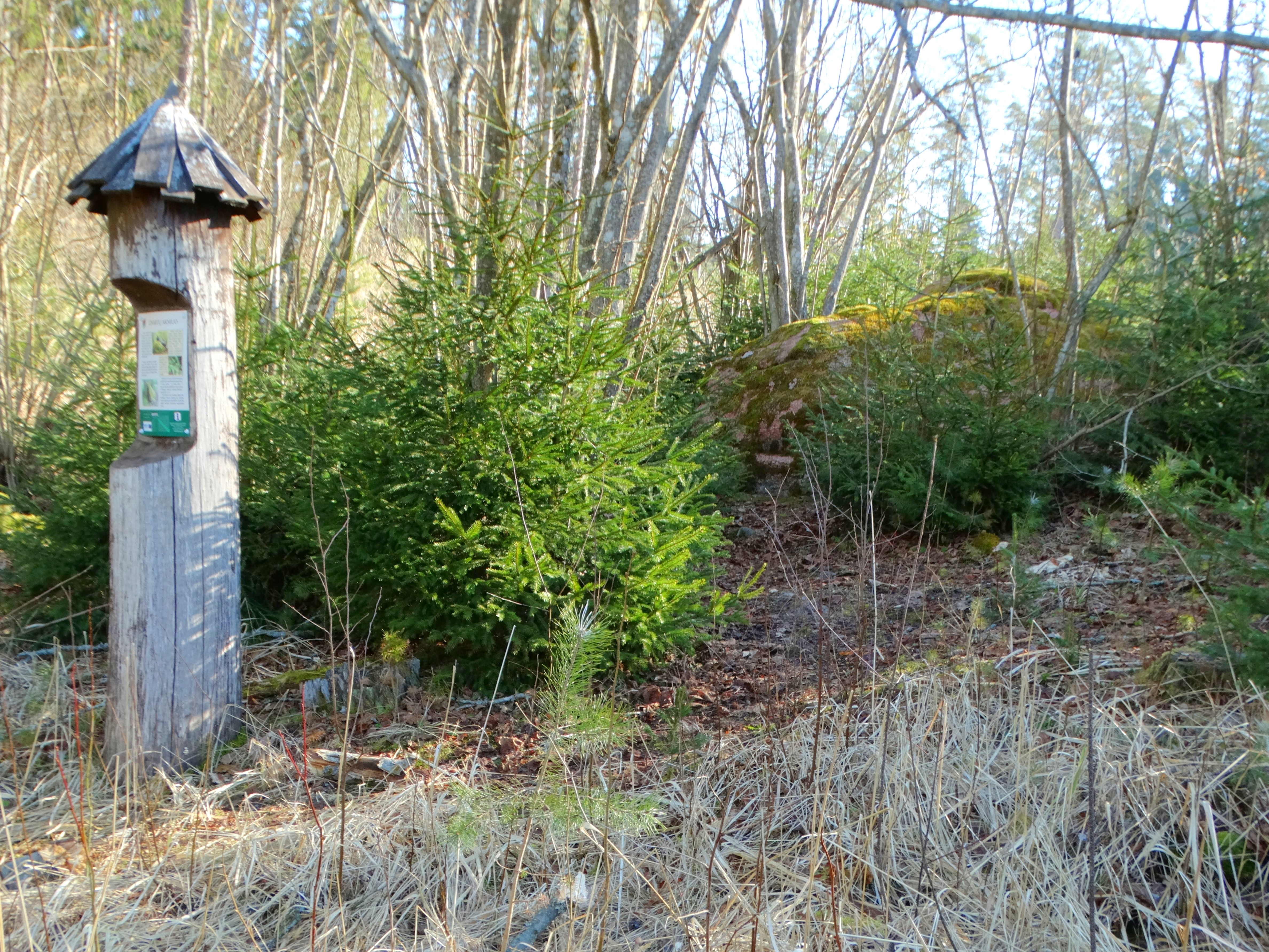 Stone, Linartai, Šiauliai district, Lithuania